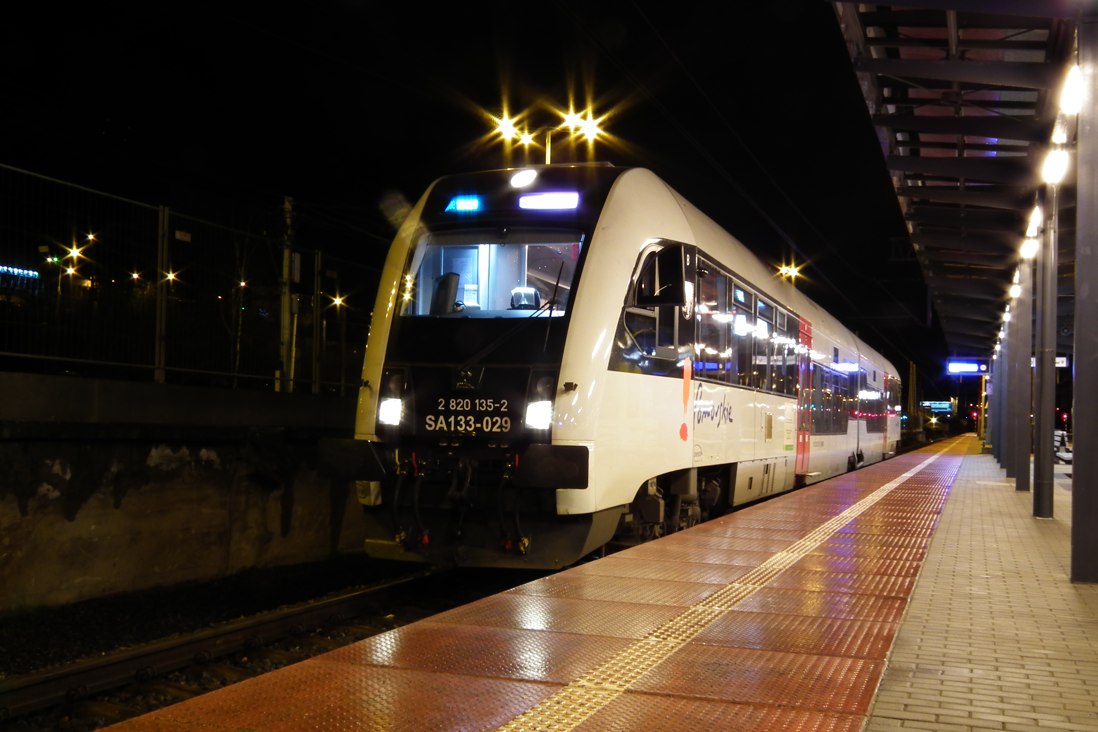 SA133-029 DMU of PKP SKM ready to depart as train no. 96110 (depart 05:20) to Gdańsk Wrzeszcz (via Lech Wałęsa Airport) at platform 5 of Gdynia Główna station